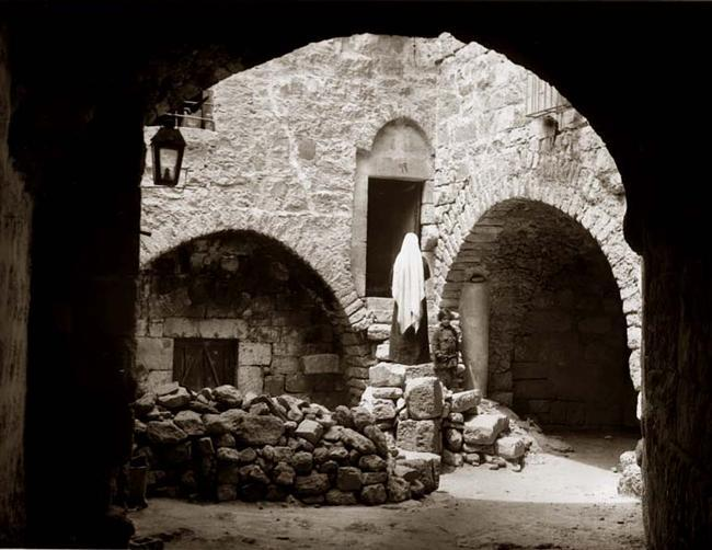 Bethlehem 1898 Description given at the source: "(...) Bethlehem Woman. It was taken in 1898." (text from same source)